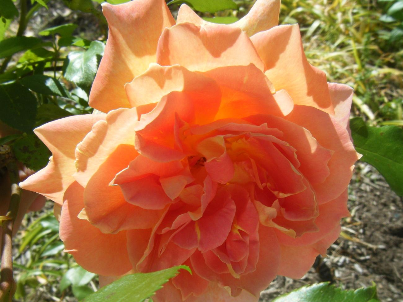 Rosa 'Helen Hayes' (Hybrid Tea Rose) growing near the coast of New Jersey